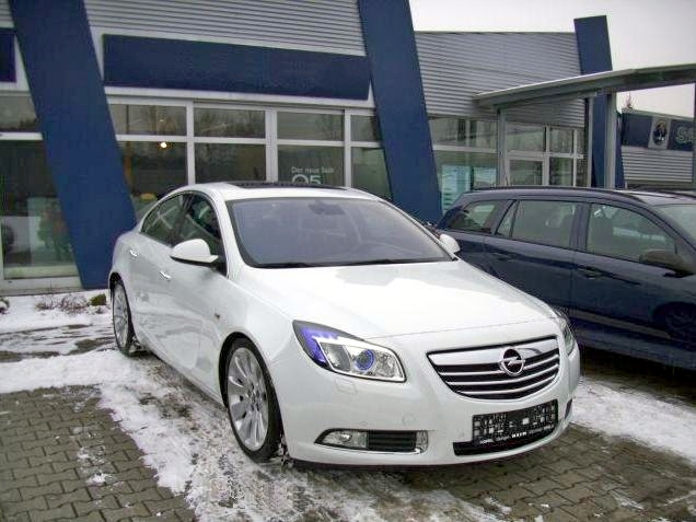 Opel Insignia